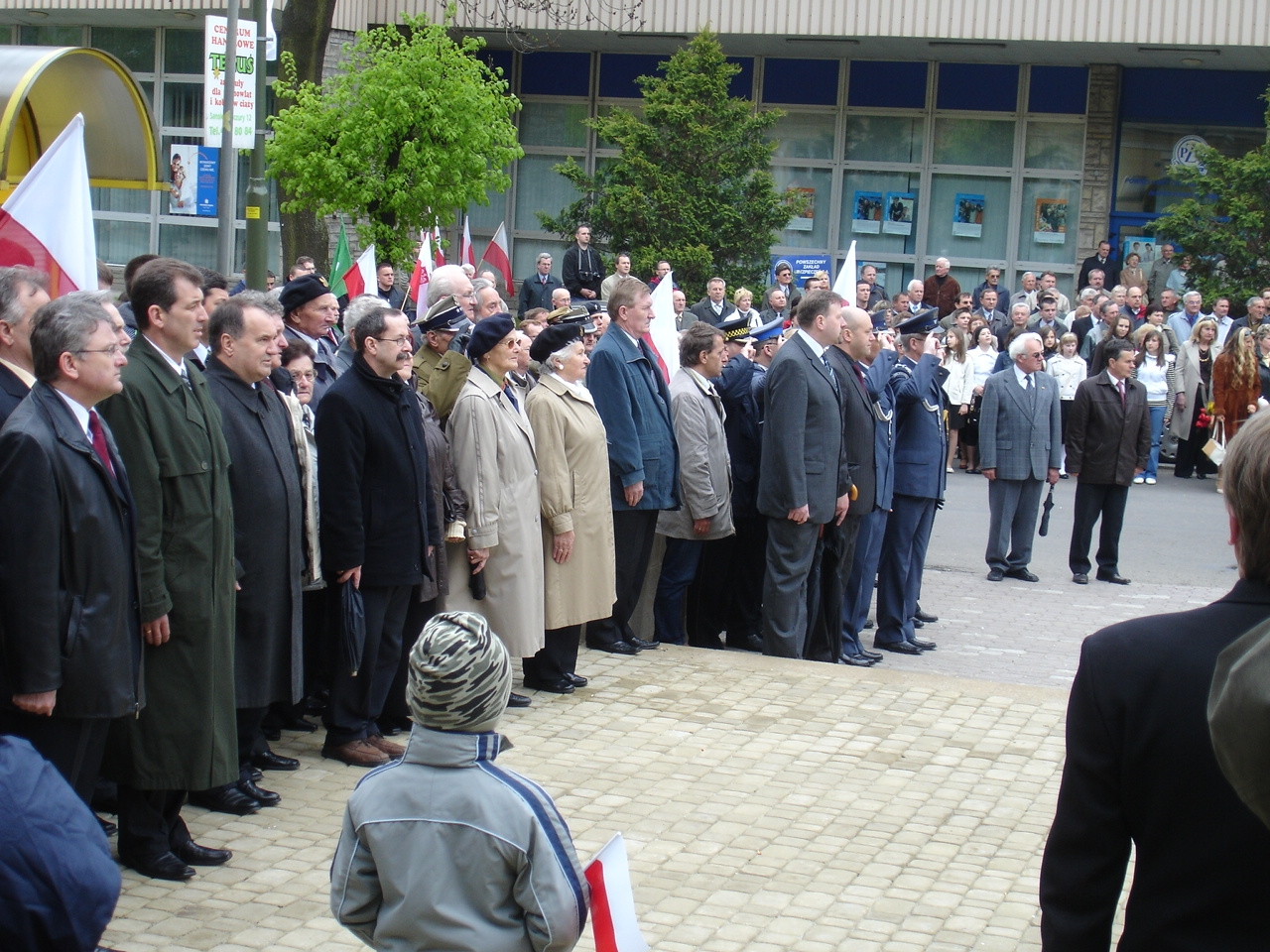 Polish Constitution Day in Sanok, 217th Anniversary. Polish inhabitants celebrating in the market square of Sanok. From left to right are: (First row) Wojciech Blecharczyk (Mayor of Sanok), Mariusz Szmyd (Vogt of Sanok) and Stanisław Zając (member of Parliament).